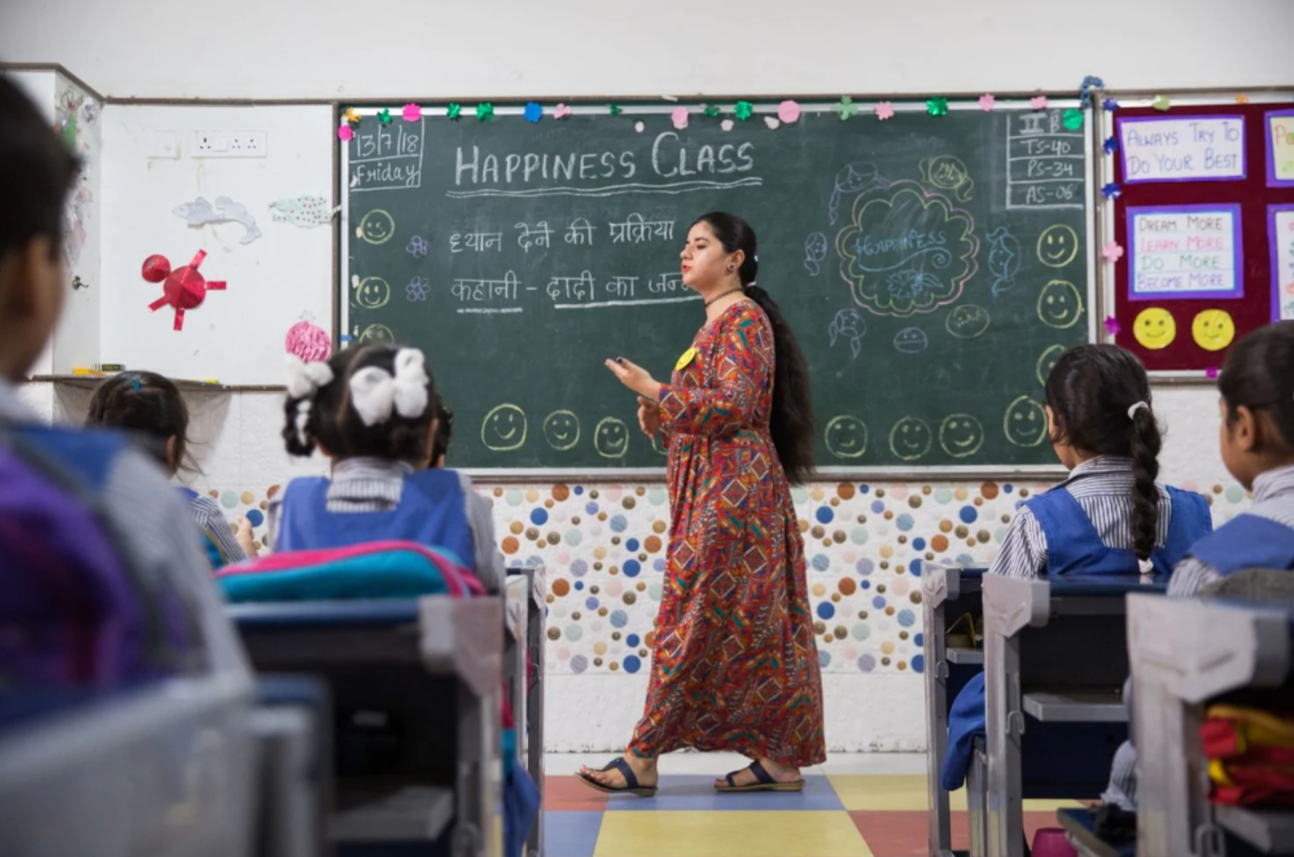 Activity during a Happiness Class, part of the Happiness Curriculum, in government school run by the Government of Delhi.